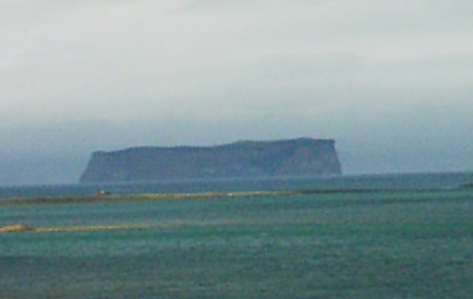 The Island of Drangey in Iceland